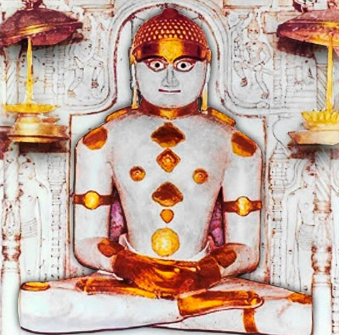 Image of sacred idol of Tirthankar Rushabhdev Bhagwan at the main temple of Palitana in Gujarat.